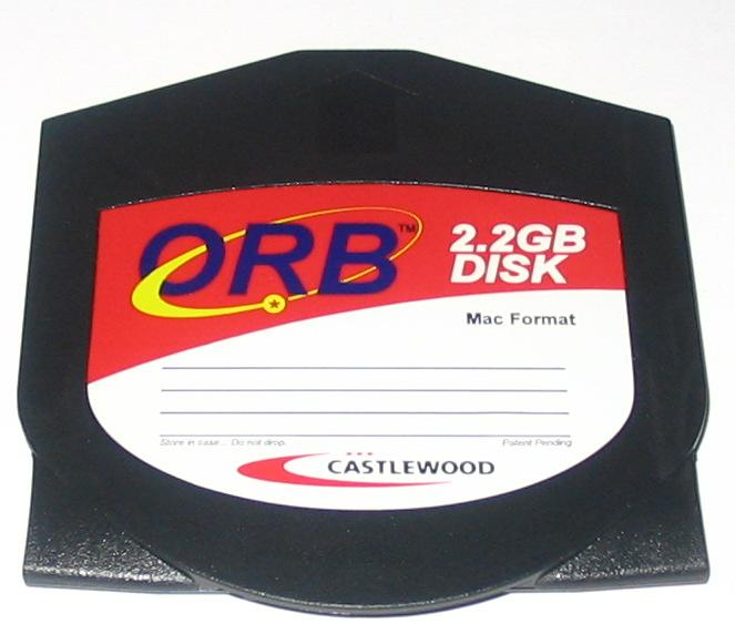 Orb Drive - 2.2GB Cartridge